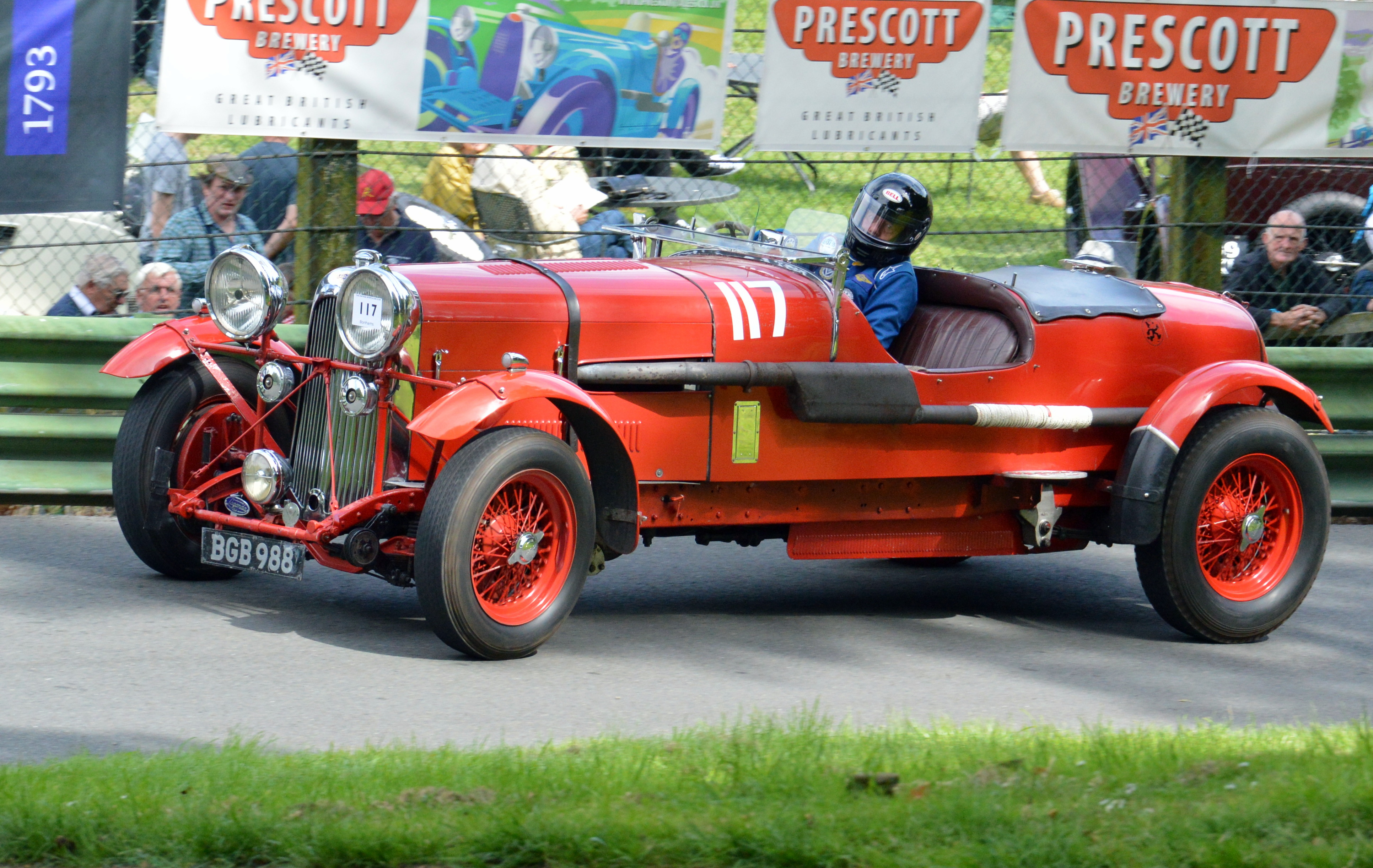 Terry Brewster's 4467cc 1937 Lagonda LG 45 on a timed run at the VSCC hill climb at Prescott